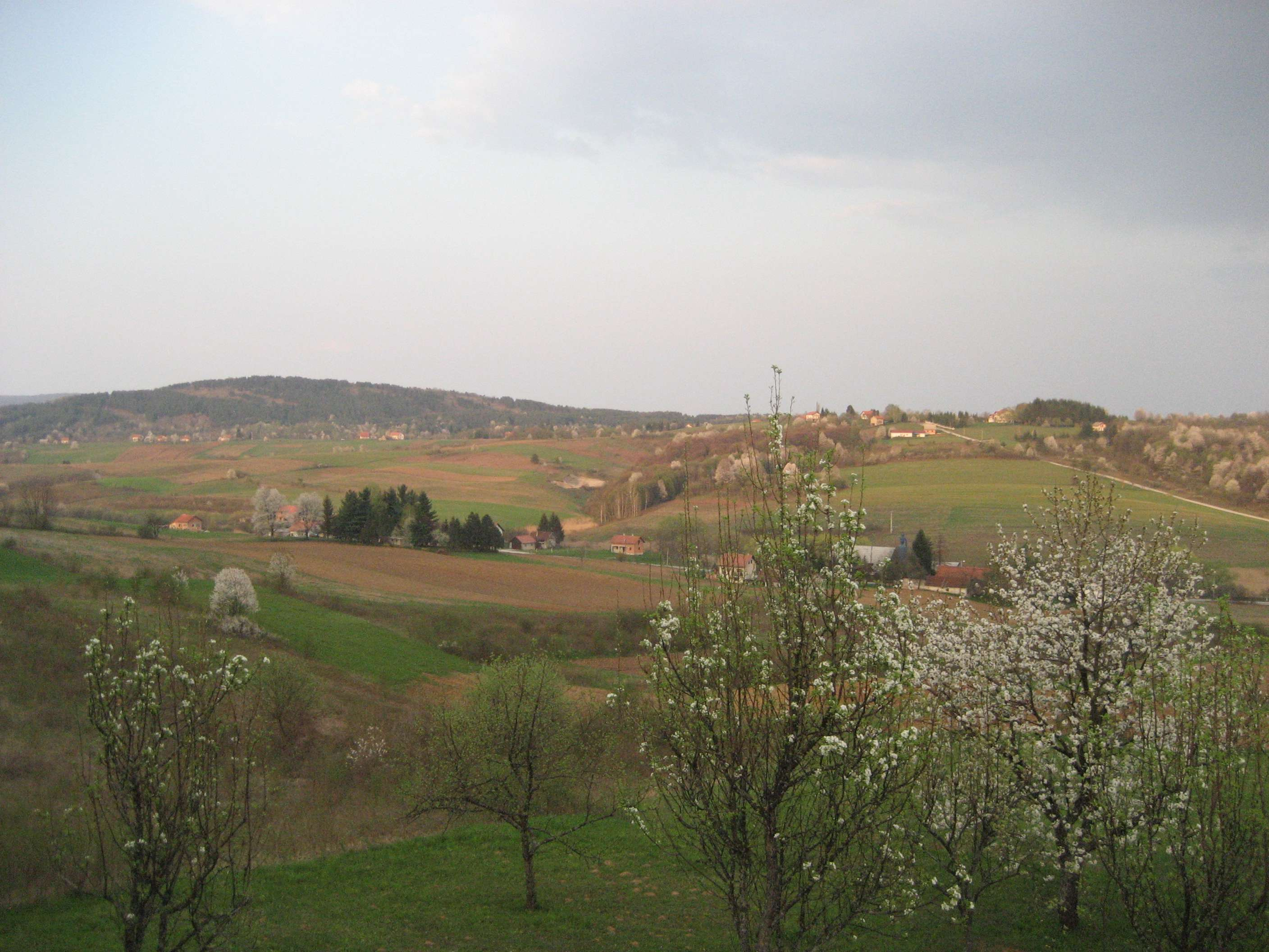 Rakovica